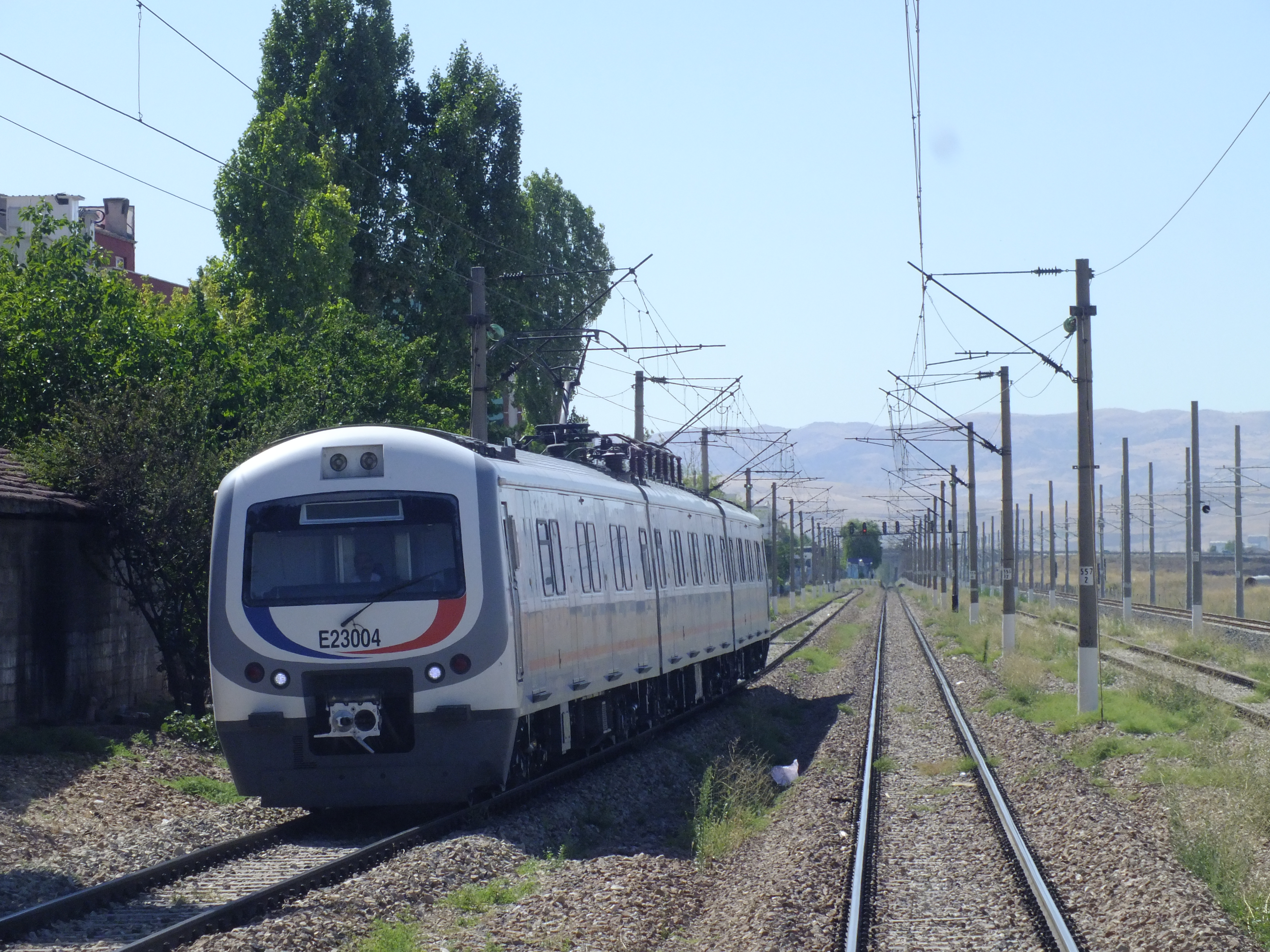 An eastbound Ankara suburban train in 2013.